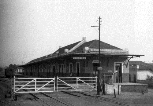 Guariba Train Station